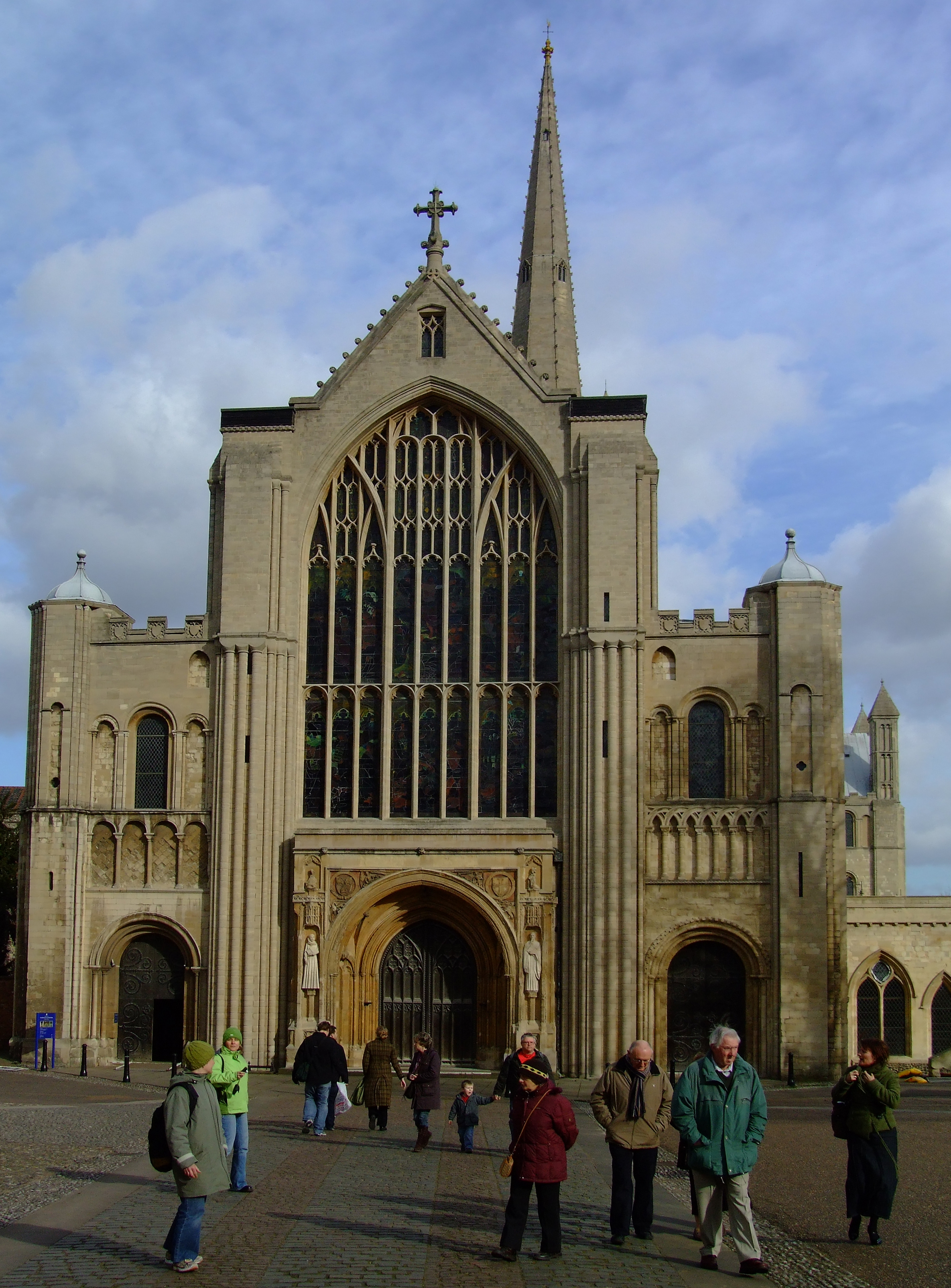 The two white figures on both sides of the portal are the newly installed statues of saint Benedict and the strangely named mother Julian.